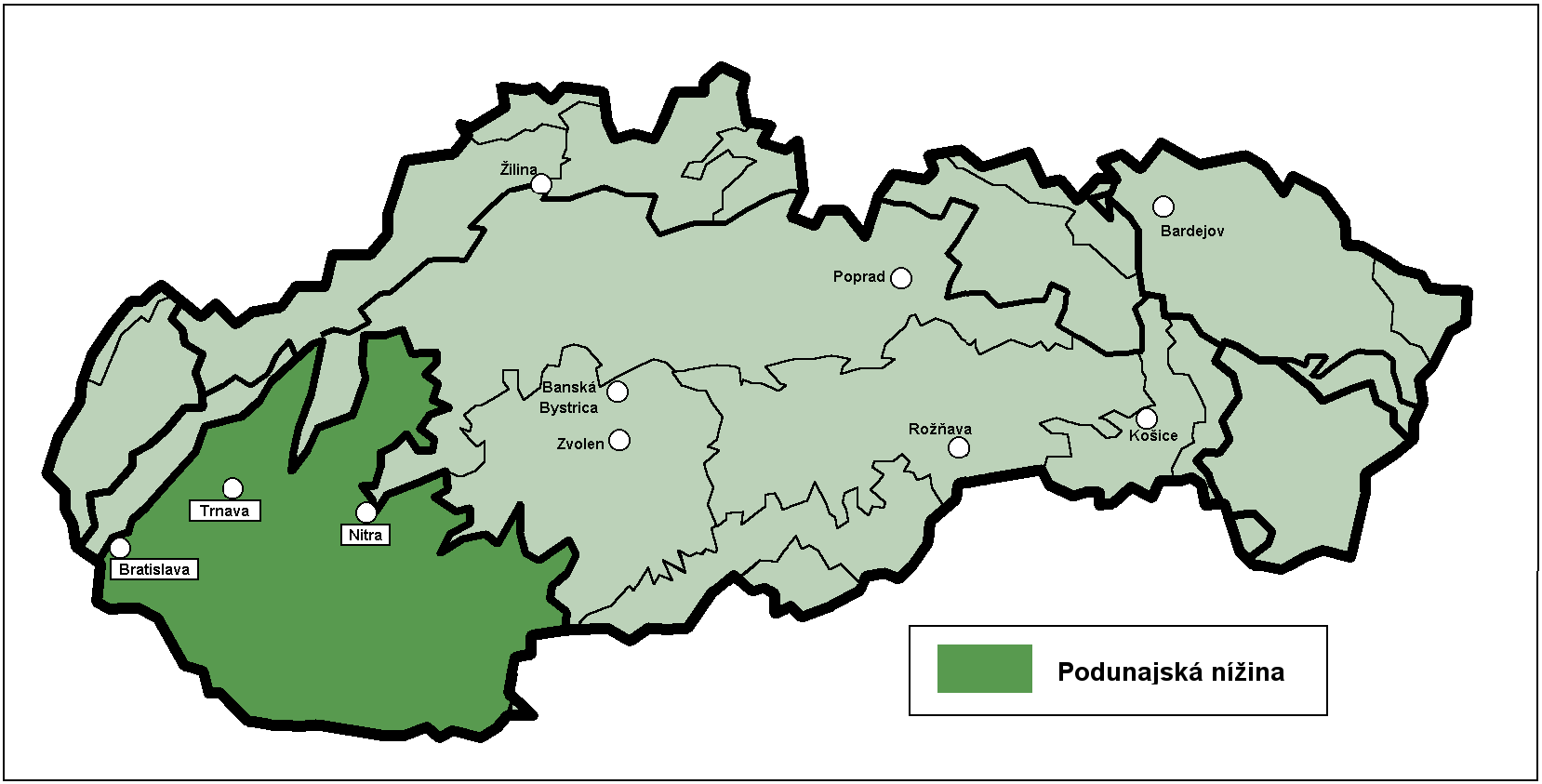 Location of the Danubian Lowland (northern part of the Little Hungarian Plain) within geomorphological subdivisions of Slovakia